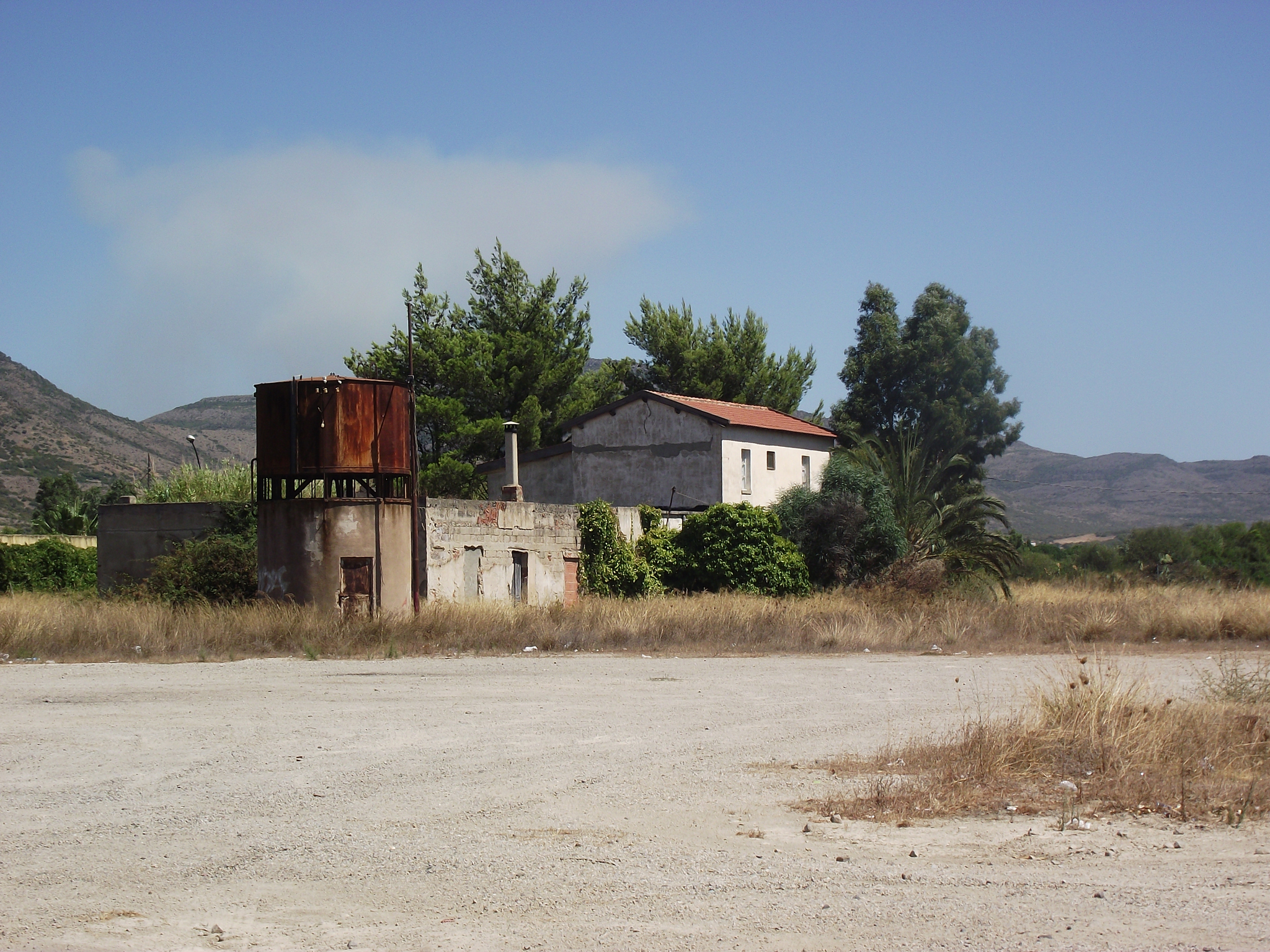 The water tank of the former Ferrovie Meridionali Sarde station of San Giovanni Suergiu, in Sardinia, Italy, with some disused service buildings behind it.